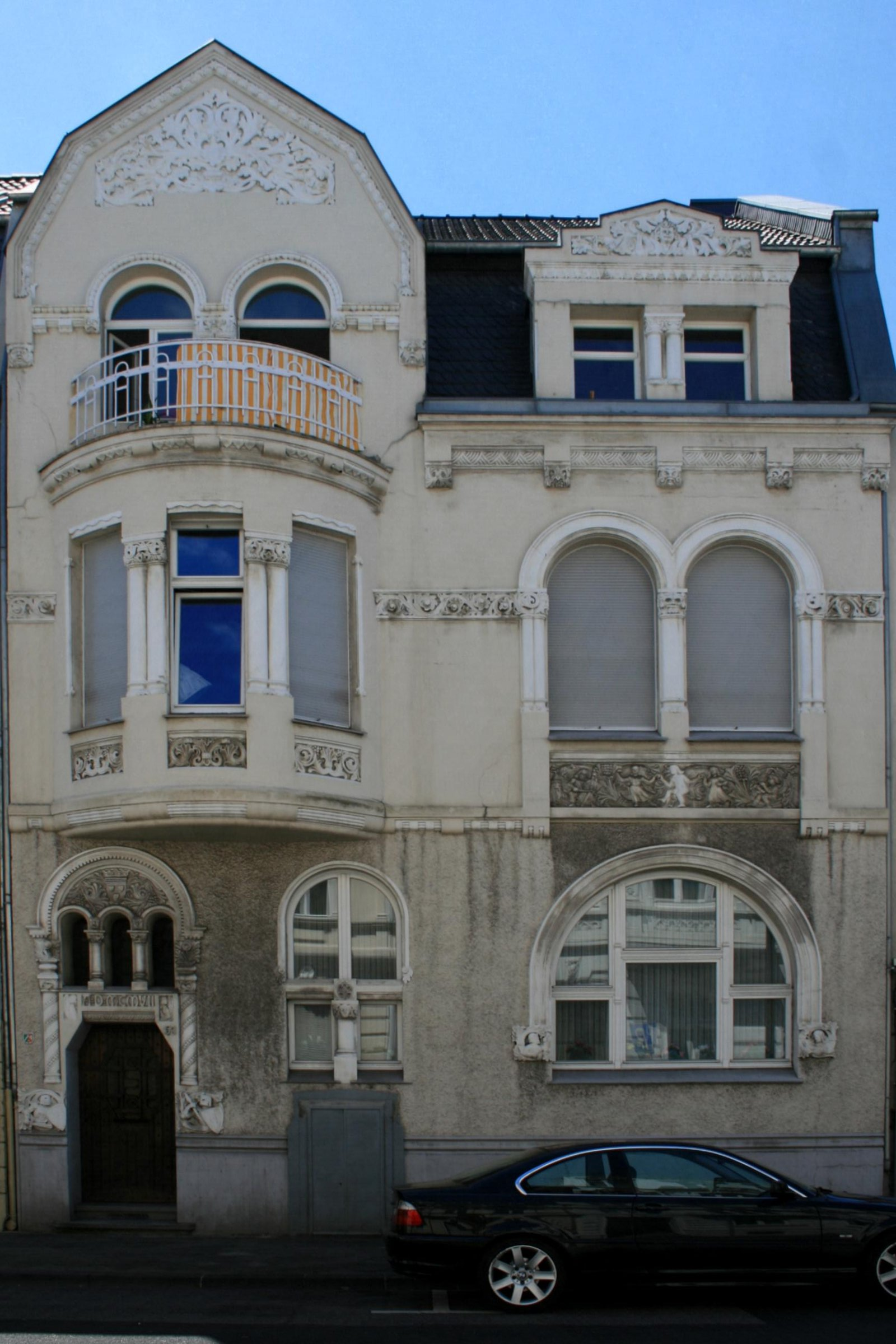 Cultural heritage monument No. H 063 in Mönchengladbach